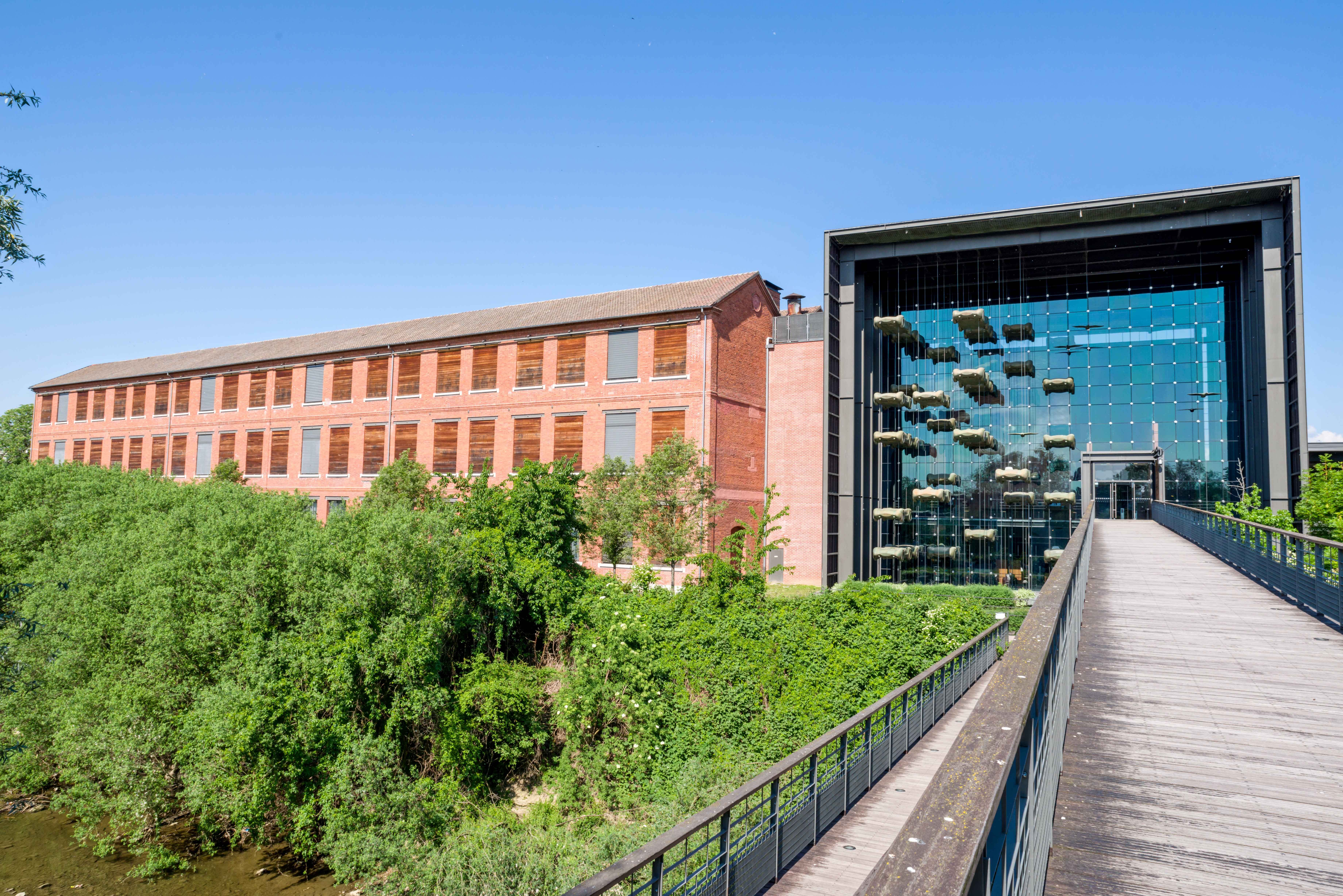 pictures from the Cité de l’Automobile – Musée National – Collection Schlump in Mulhouse, France ptictures from the 10. may 2018